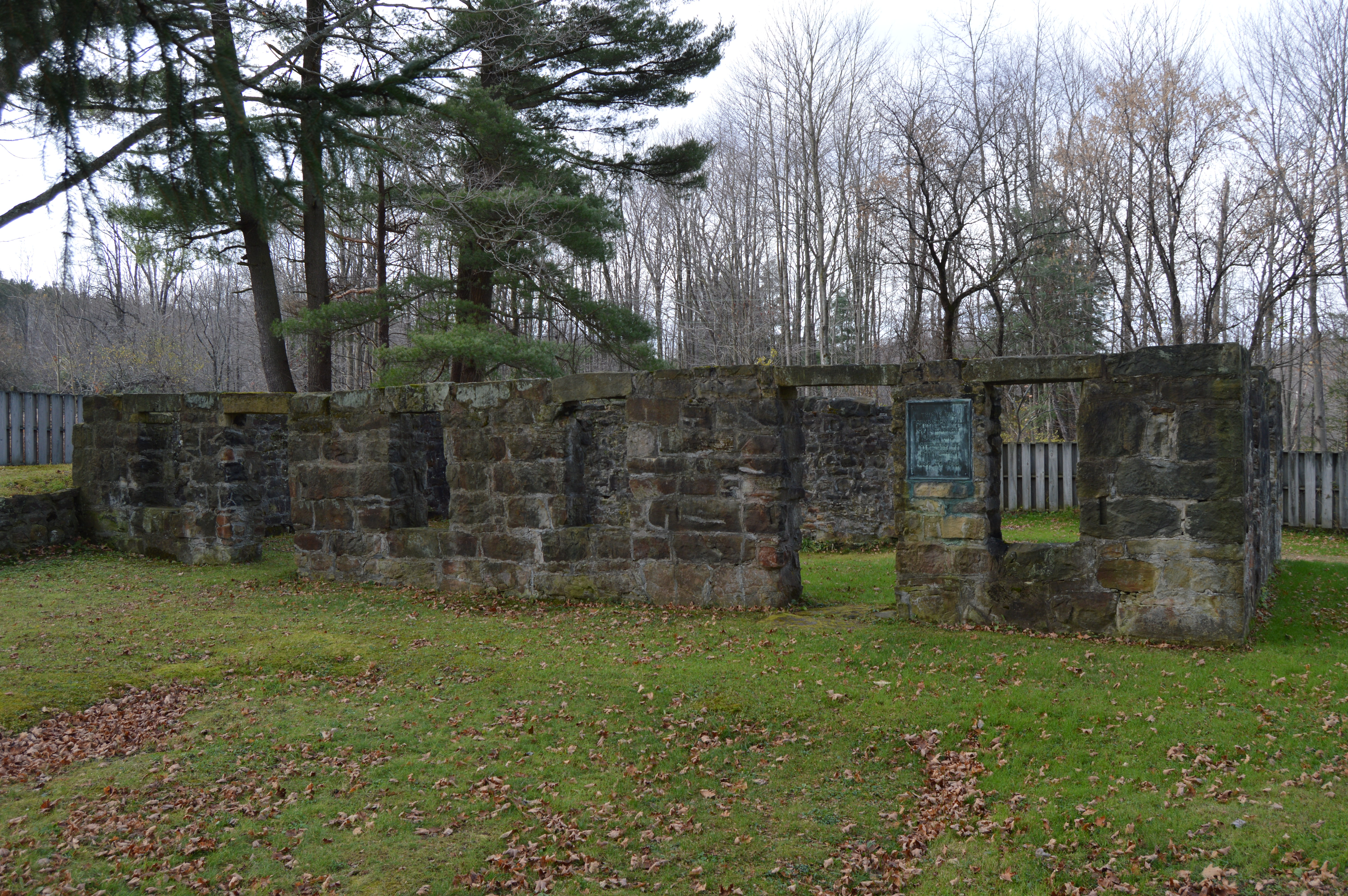 Roadside view of the John Brown Tannery Site, located on the western side of John Brown Road just south of Pennsylvania Route 77 in Richmond Township, Crawford County, Pennsylvania, United States. The site represents the post-fire remains of a tannery operated by John Brown of Ossawattomie fame; it is listed on the National Register of Historic Places as an archaeological site.